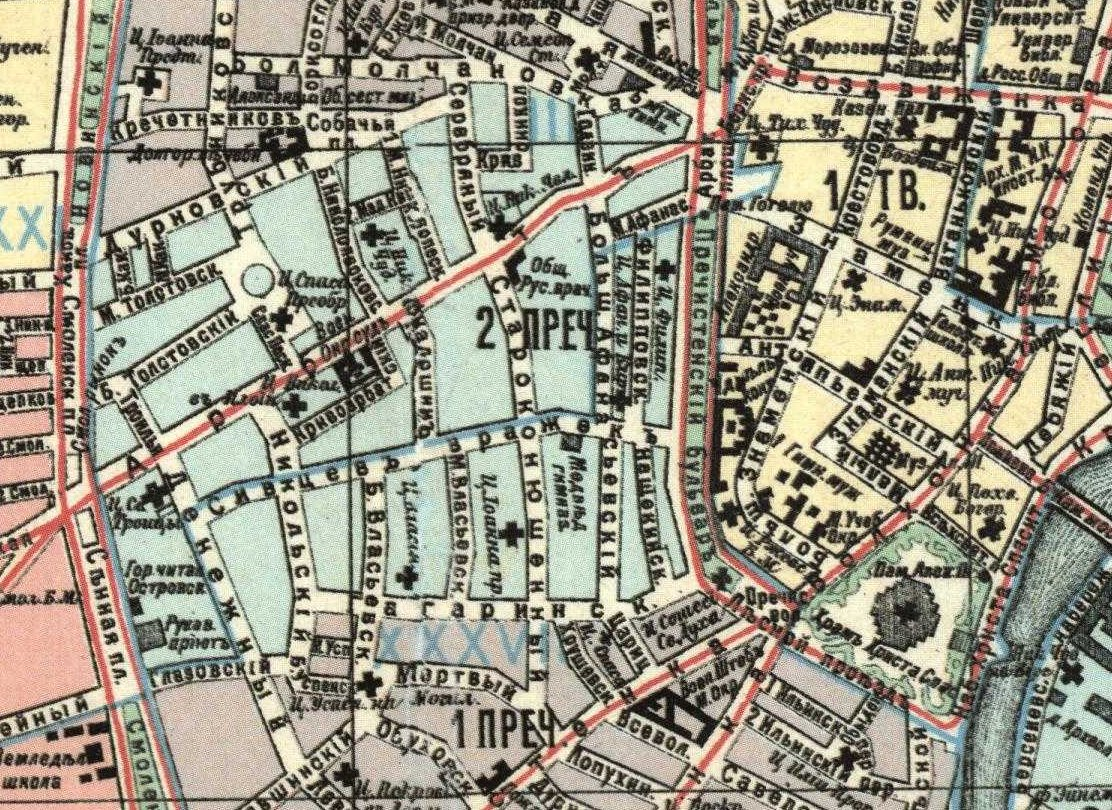 Gagarinskiy lane of Moscow, on plan of Moscow 1917